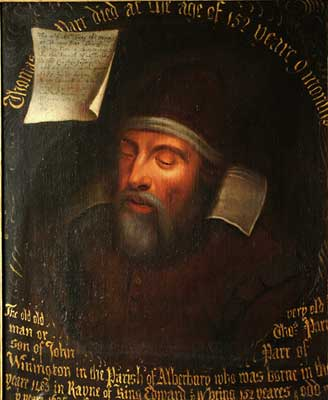 Portrait of Old Thomas Parr